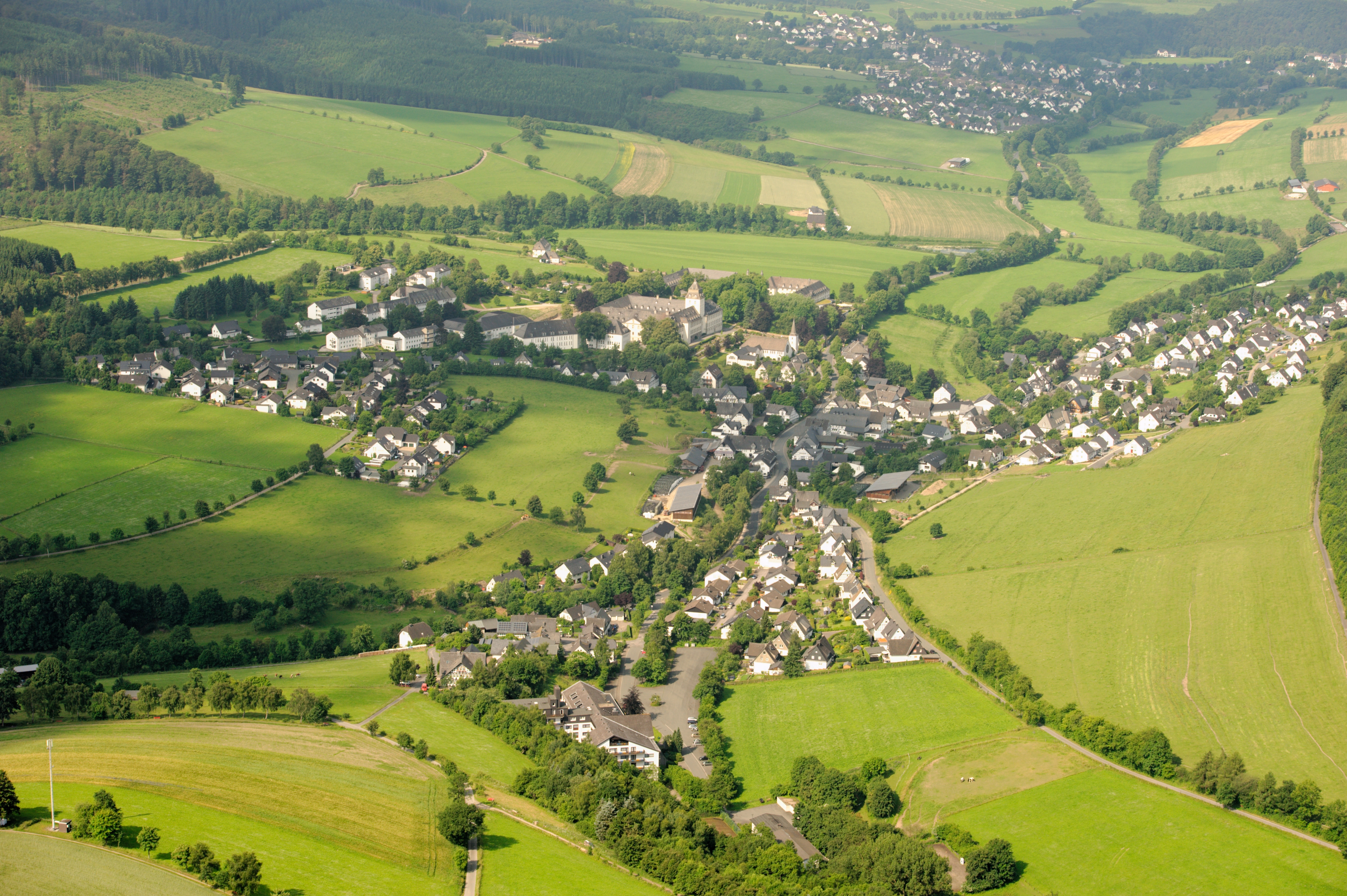 Fotoflug Sauerland-Ost, Grafschaft und Kloster Grafschaft The making of this document was supported by the Community-Budget of Wikimedia Germany.